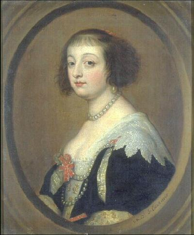 A portrait of Beatrice de Cusance, Secret second wife of Charles IV, Duke of Lorraine